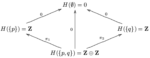 depiction of the constant sheaf (mathematics) on a two-point topological space